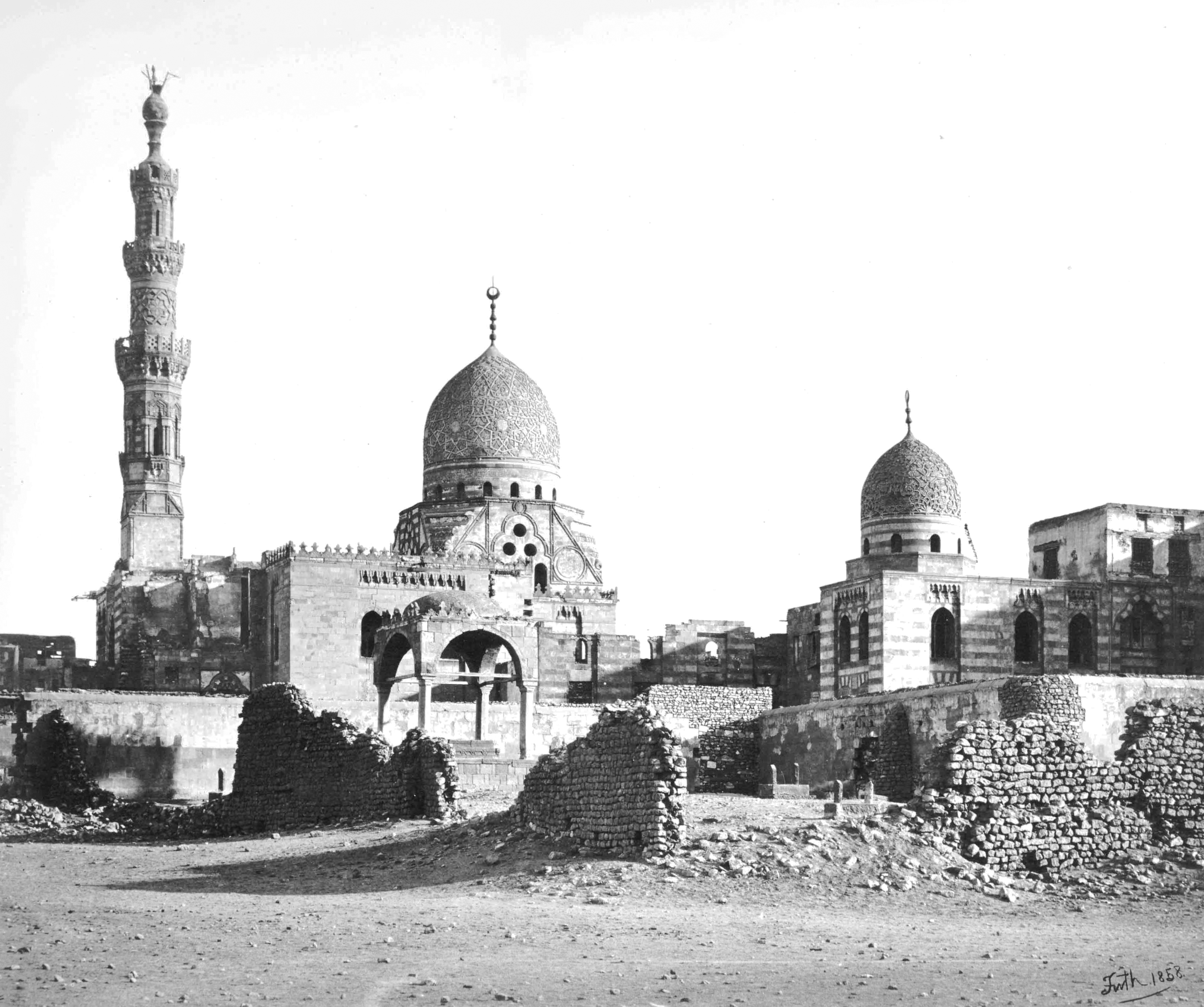 Mosque of Sultan Quait-Bey 1858